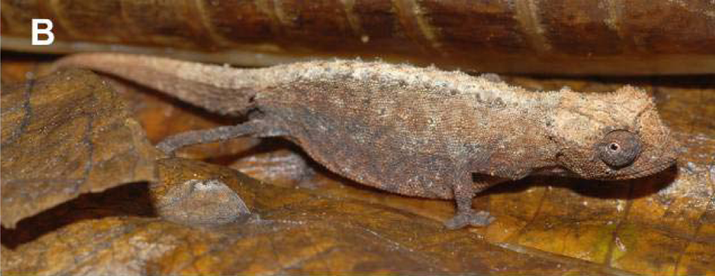 Female Brookesia tristis from Montagne des Français, Madagascar.